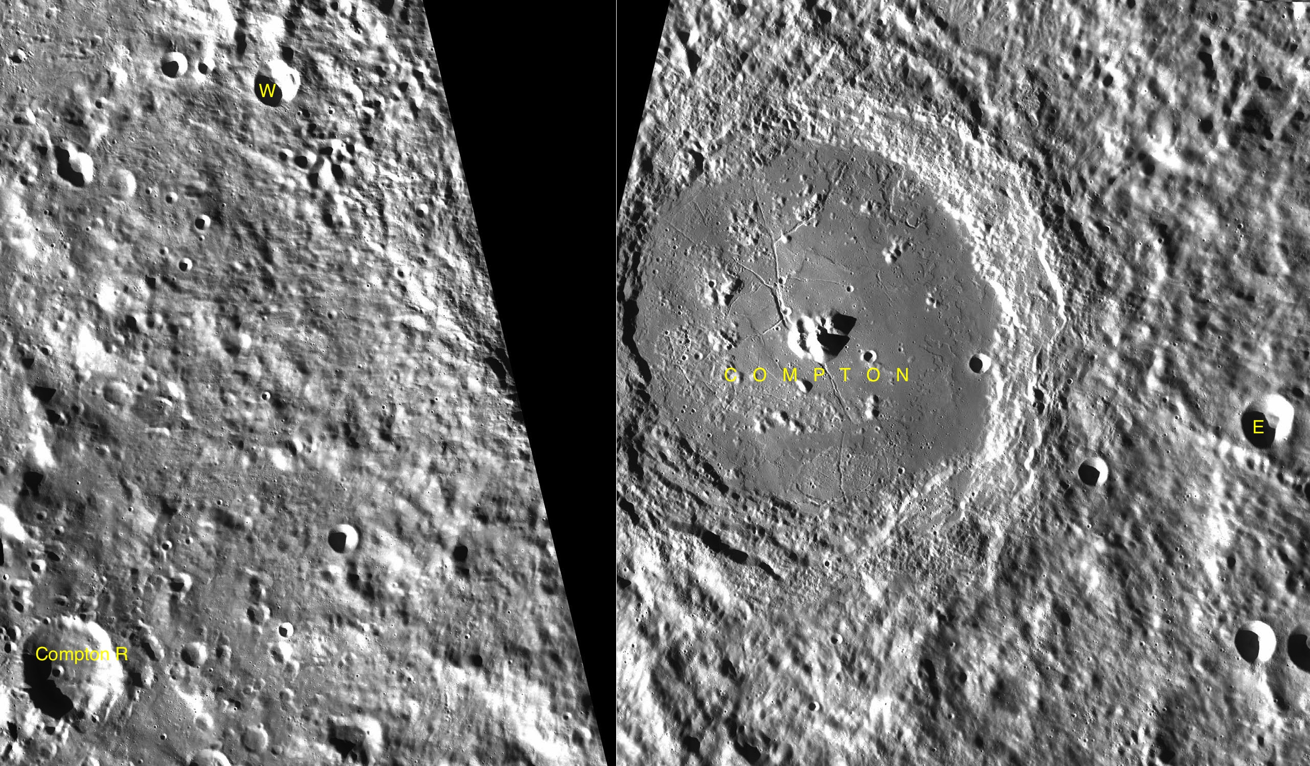 Parts of the charts LAC-15, LAC-16 used for the presentation